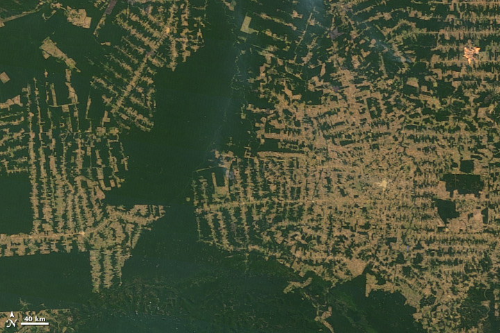 Deforestation in the state of Rondônia in western Brazil.